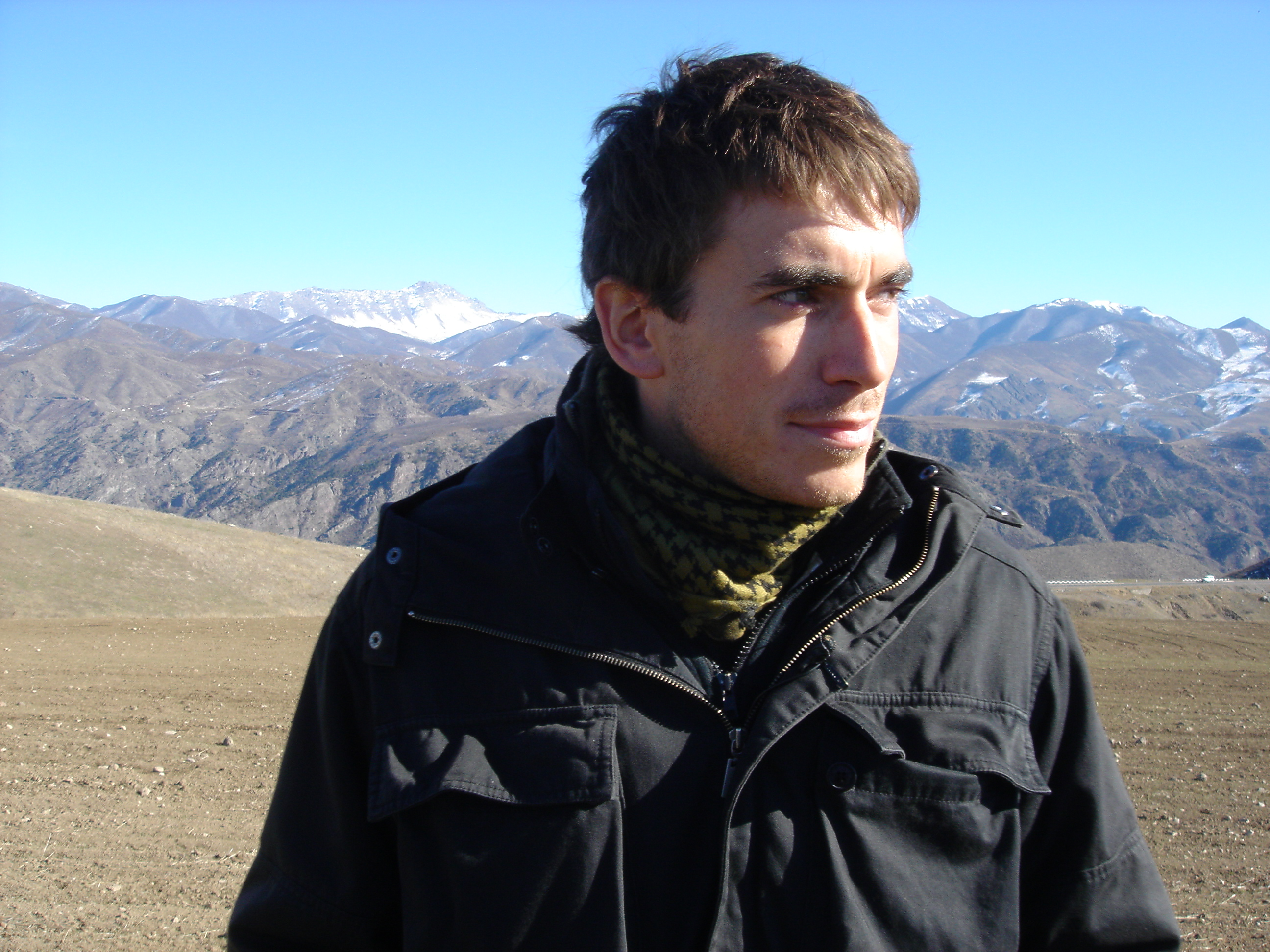 Simon Reeve in mountains on the border between Armenia and the unrecognised state of Nagorno-Karabakh - still the focus of ongoing tension and conflict between Armenia and Azerbaijan. Additonal: Taken as part of the BBC 2 television programme - Holidays in the Danger Zone: Places That Don't Exist